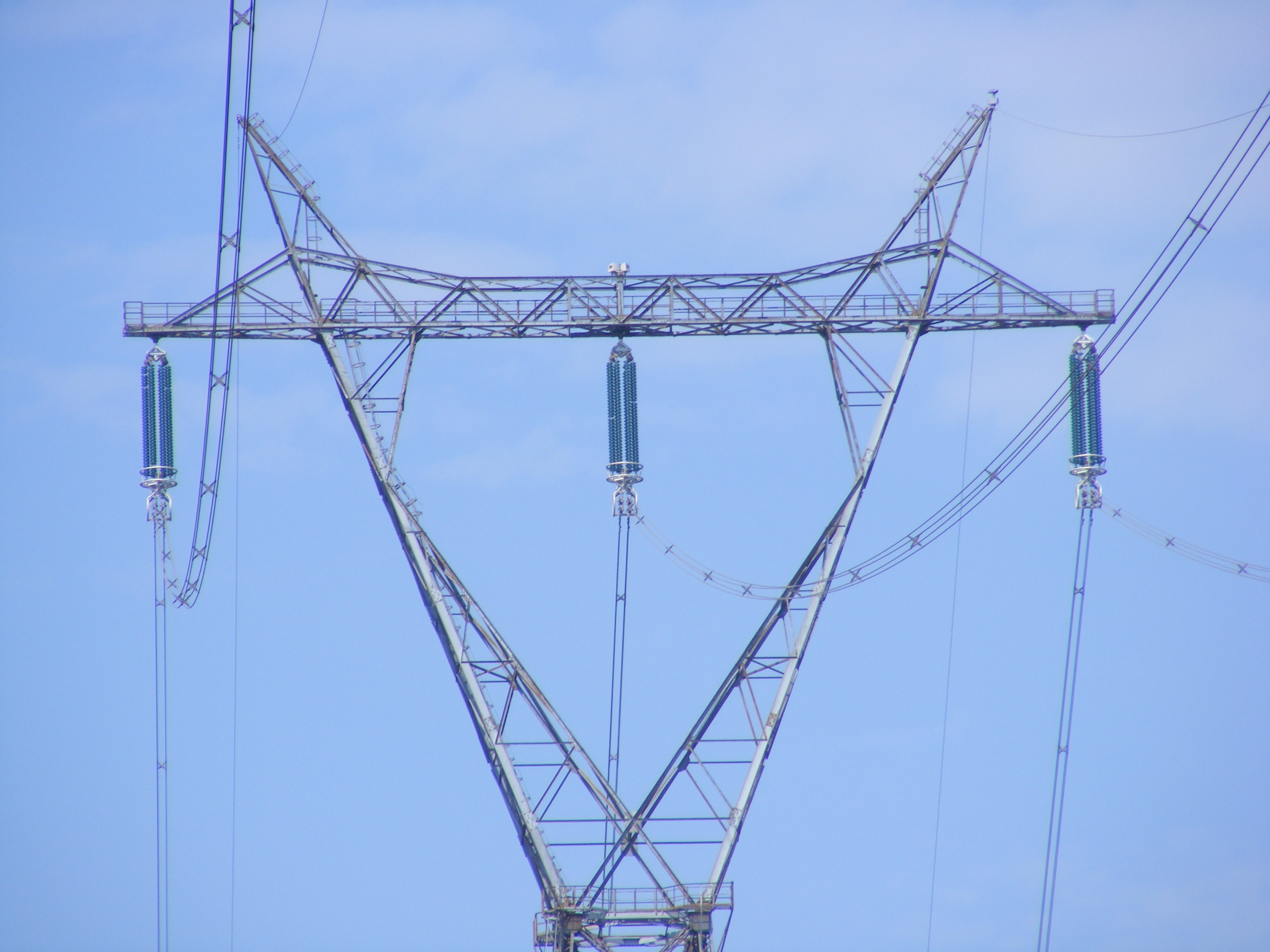 A Mae West pylon from an Hydro-Québec 735 kV power line, recognizable by its x-shaped spacers used to separate the 4 wires.